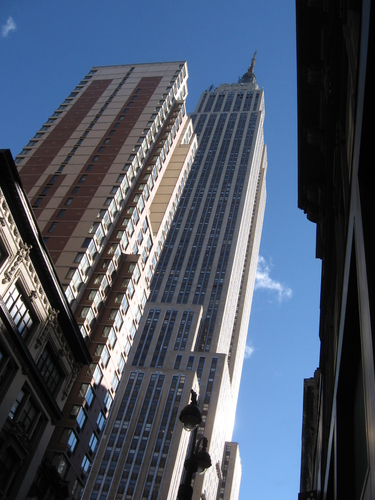 Empire State Building